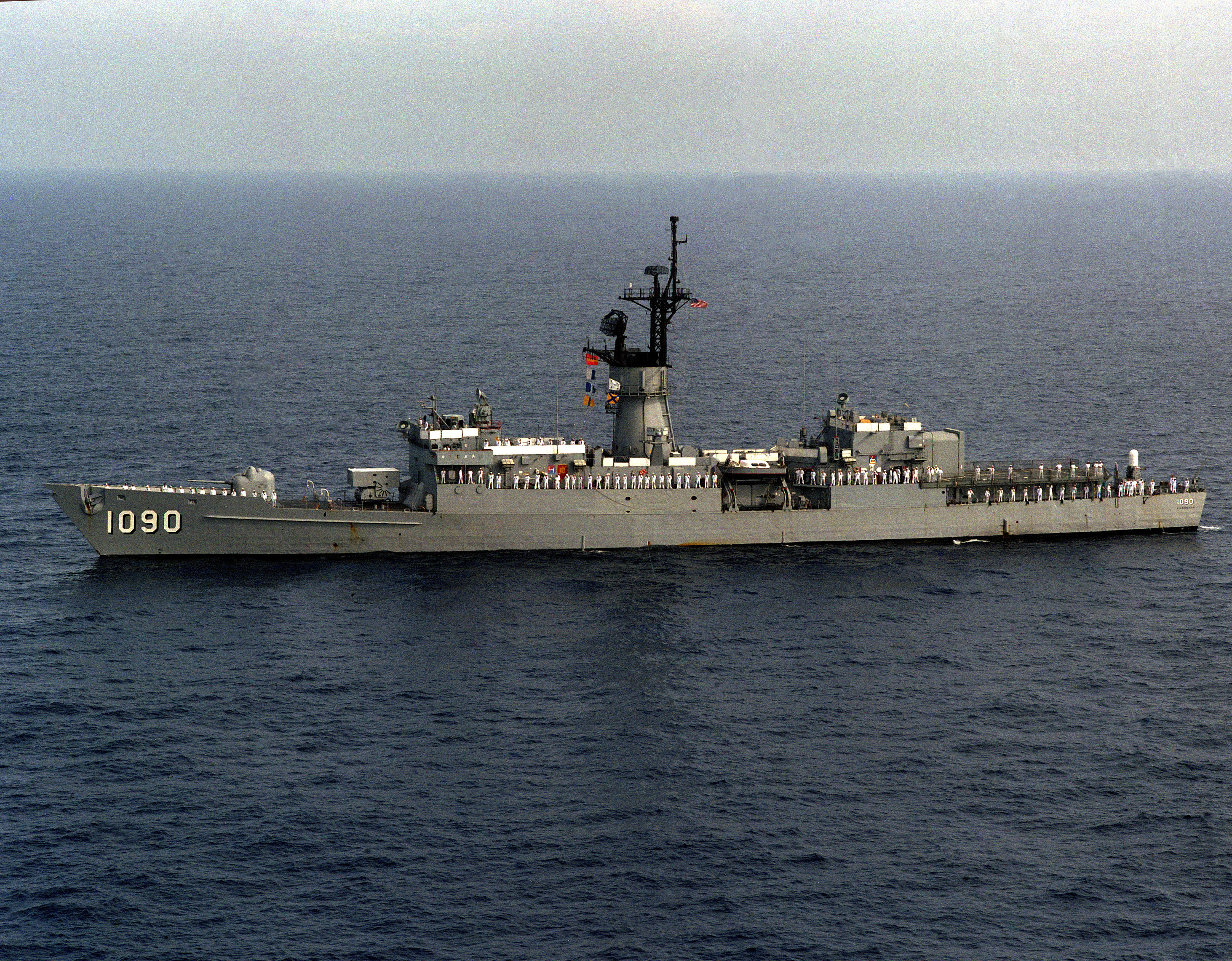 The U.S. Navy frigate USS Ainsworth (FF-1090) underway off Augusta Bay, Sicily, Italy, on 17 October 1987.